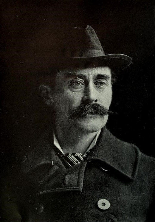 Portrait of Robert Edwin Peary